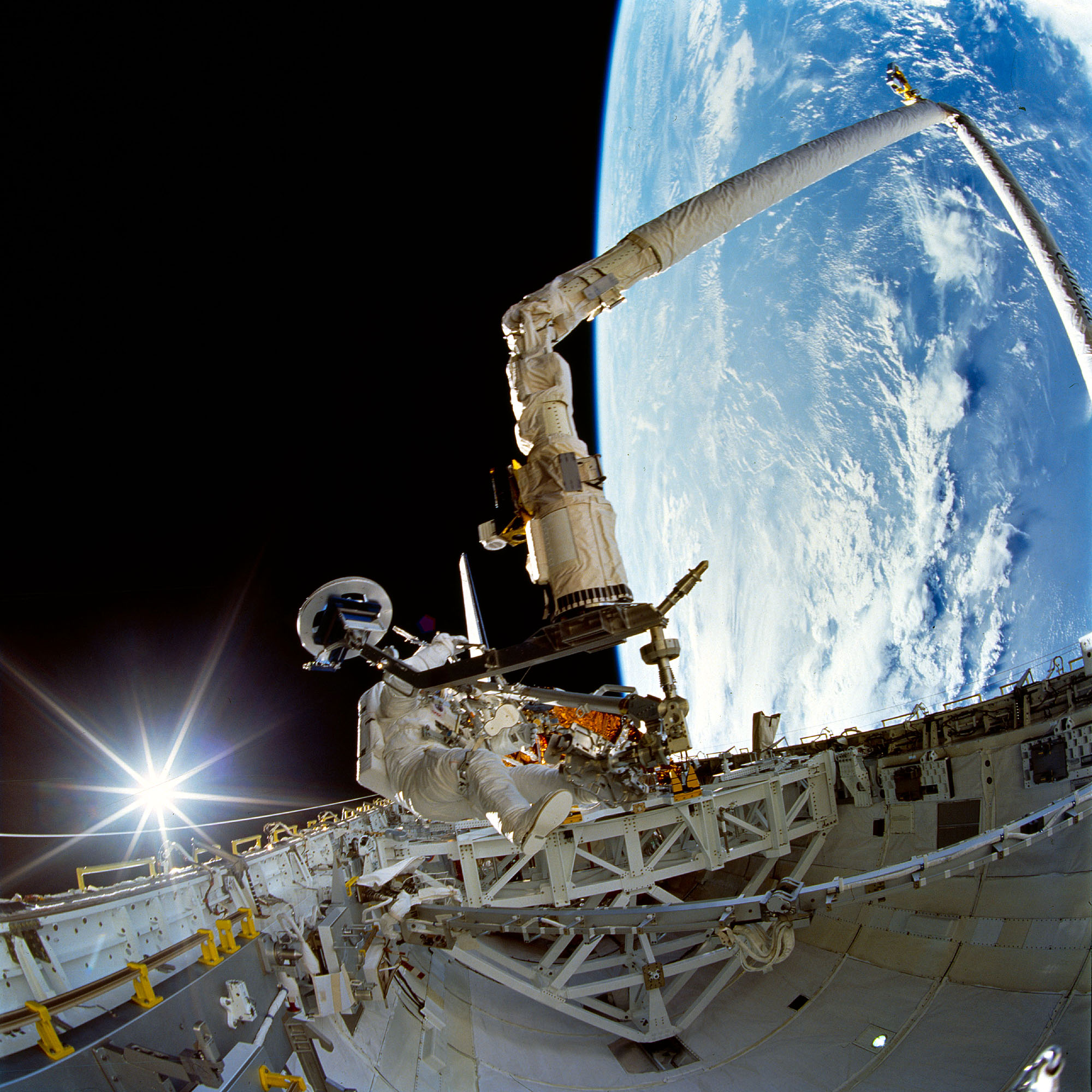 Astronaut Dan Barry works with a rigid umbilical during mission STS-72.